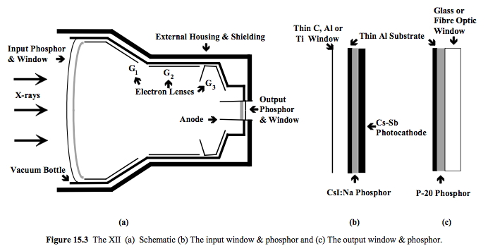 The X-ray image intensifier (a), with close-ups of the phosphor/photocathode sandwich (b) and the output phosphor (c).